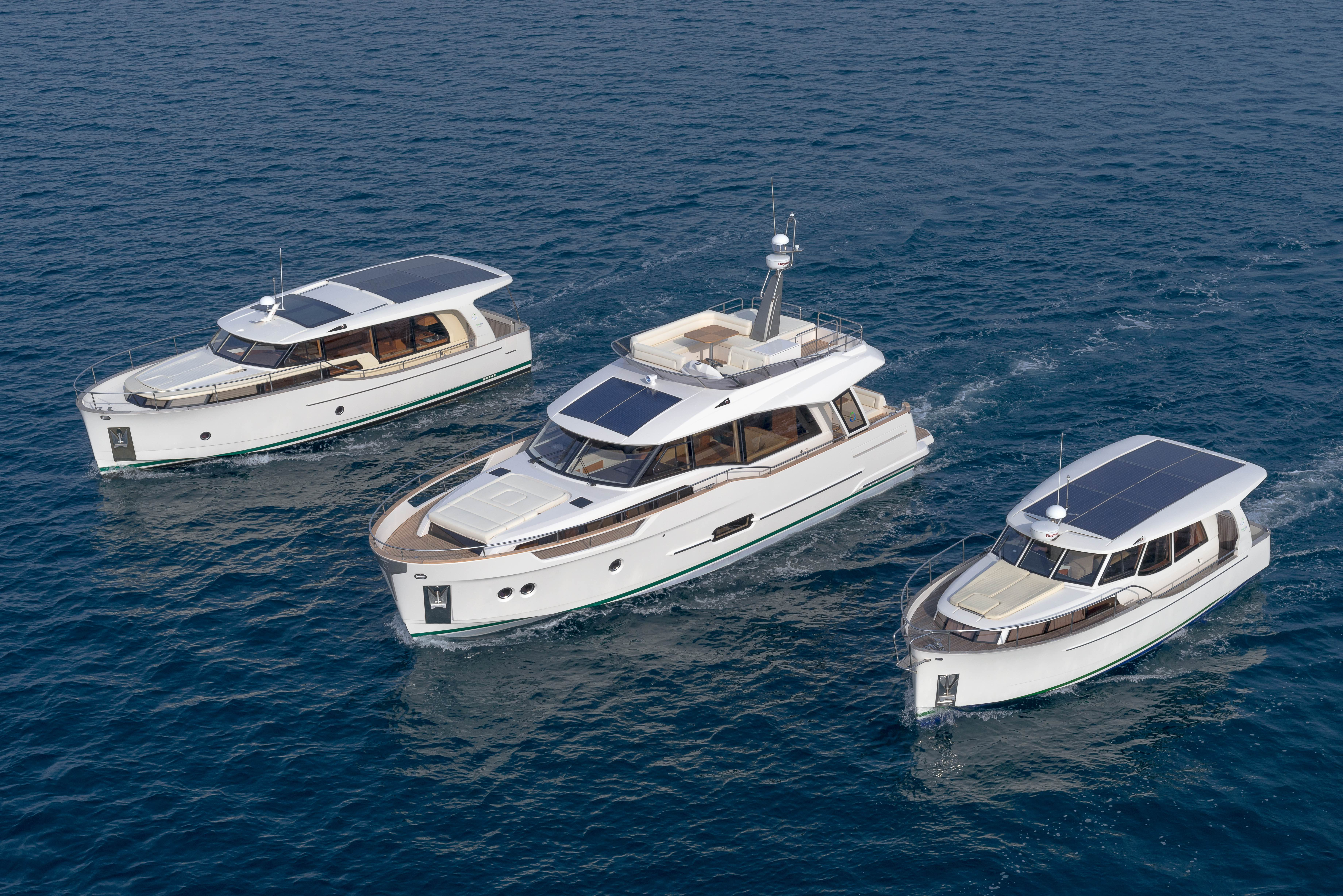 Greenline Hybrid fleet in Bay of Piran / 33, 40 and 48 feet (November 2010)